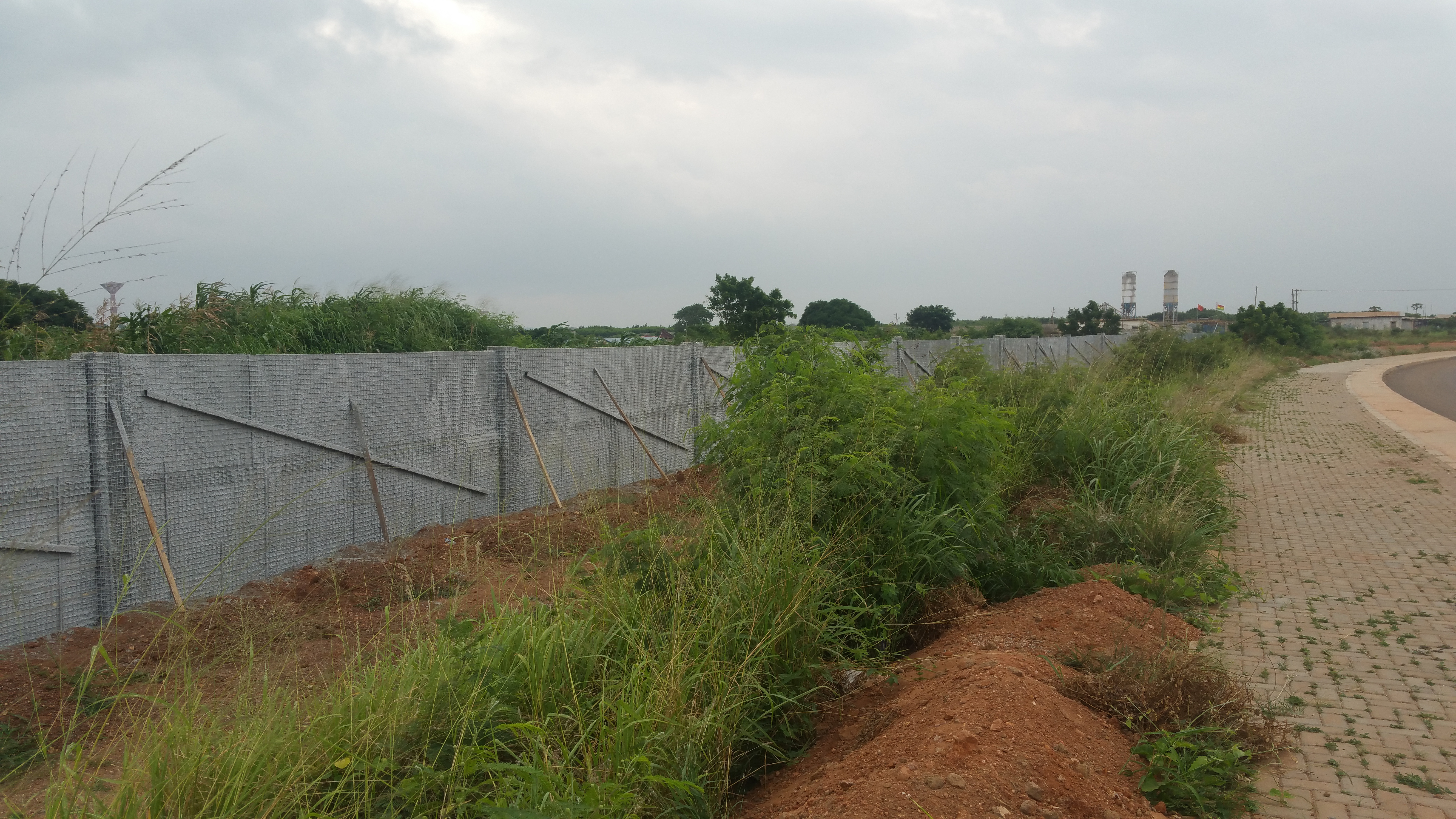 This is an image of "African people at work" from Ghana